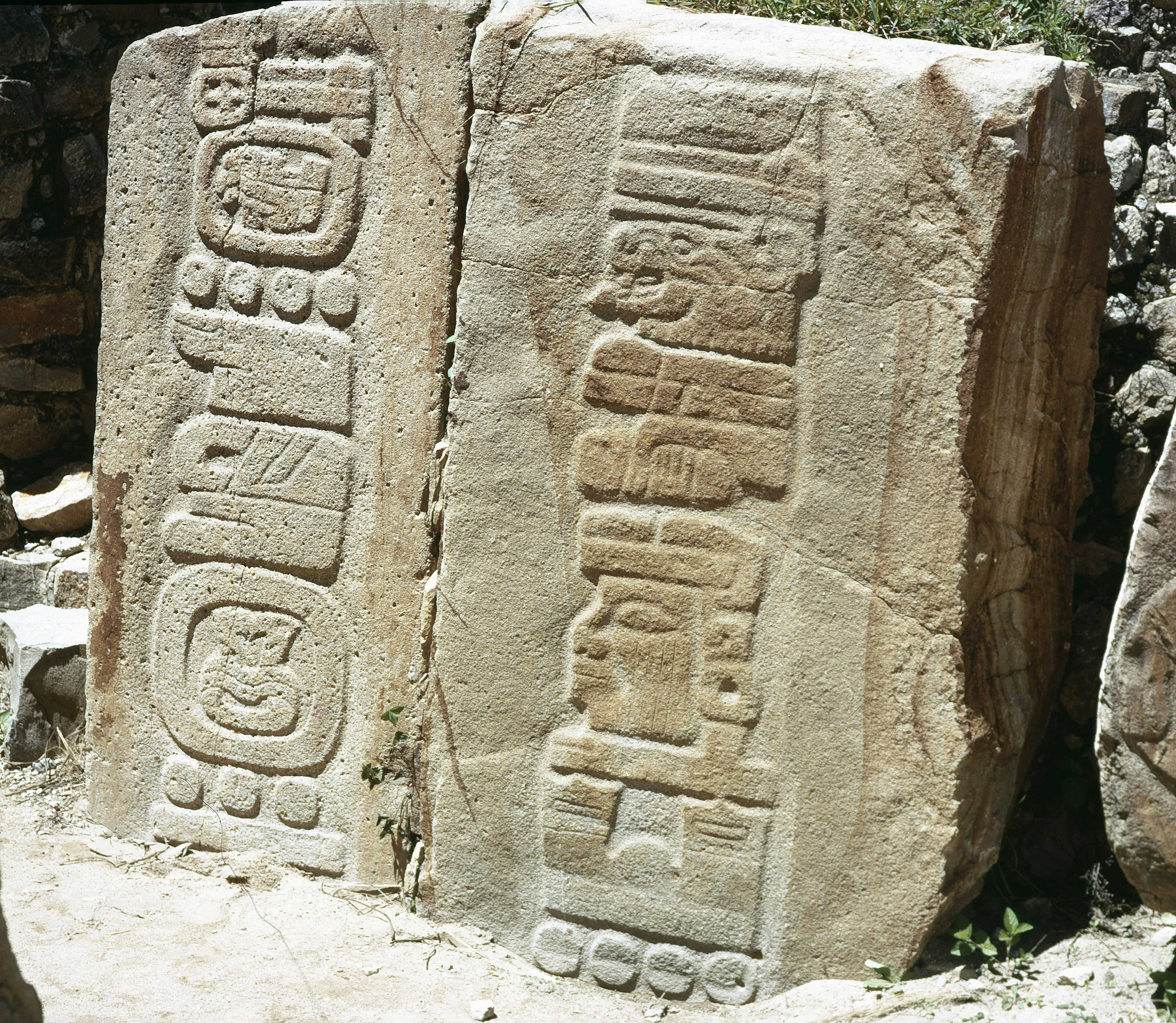 Monte Albán, Oaxaca, Mexico: Stelae 12 + 13